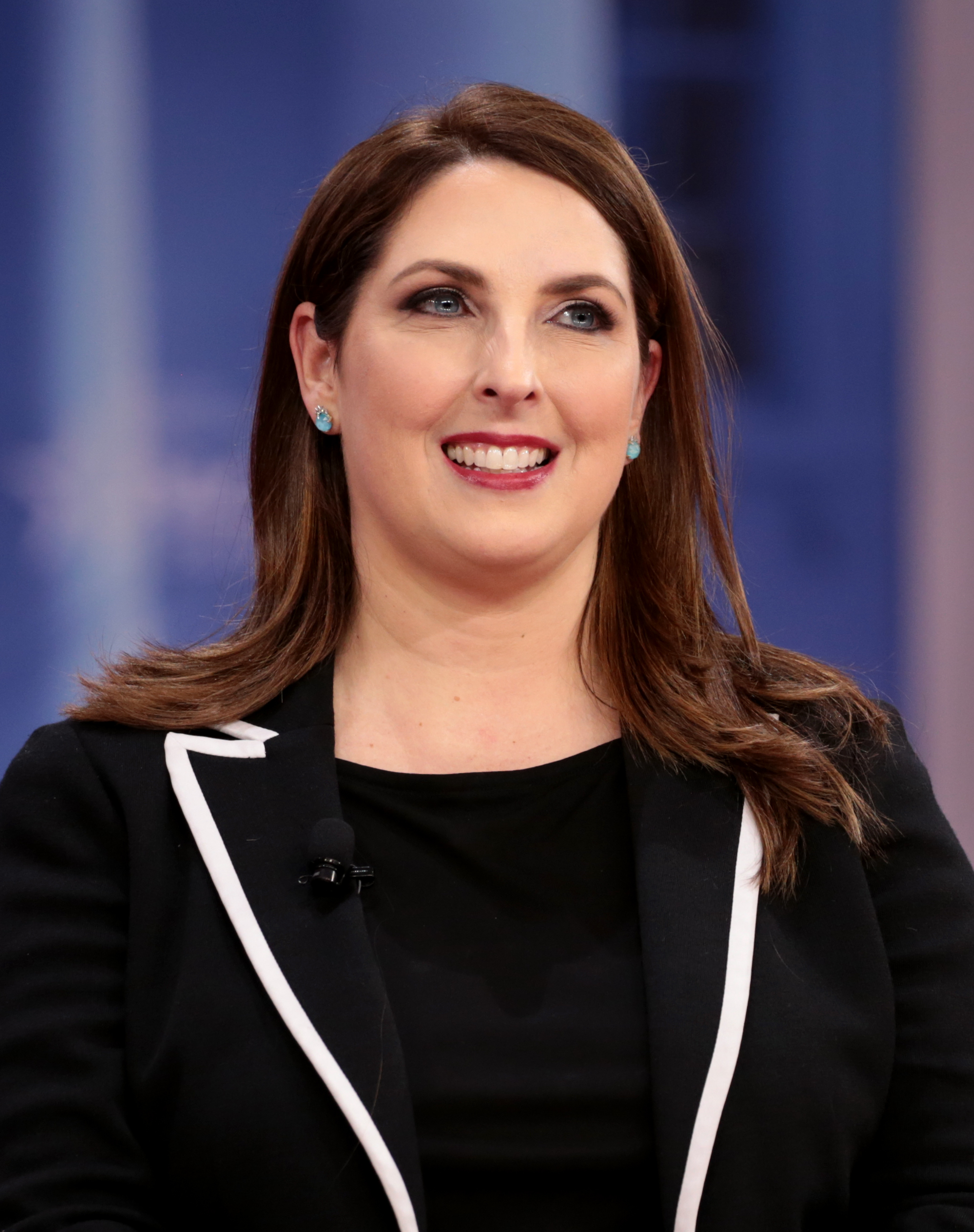 RNC Chairwoman Ronna McDaniel speaking at the 2018 Conservative Political Action Conference (CPAC) in National Harbor, Maryland.